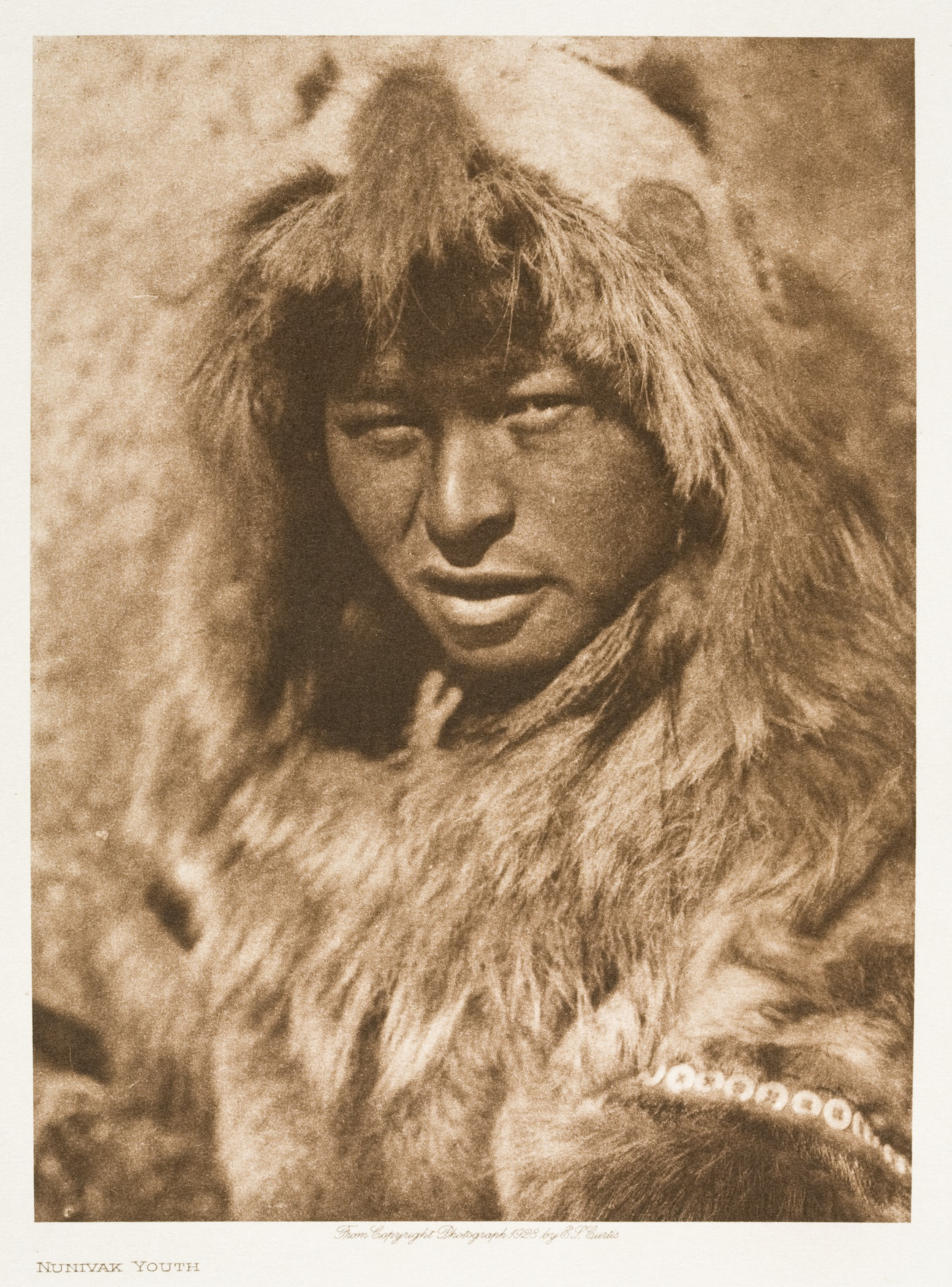 United States, 1928 Photographs Photogravure on paper Gift of Mark and Pam Story (AC1997.271.49) Photography